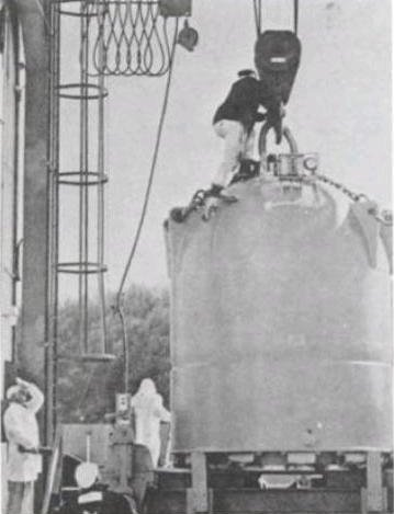 Fifty-ton shipping cask built at Oak Ridge National Laboratory which can transport up to 1 gram of 252Cf Seaborg, G.T. (1994) Modern alchemy: selected papers of Glenn T. Seaborg, World Scientific, ISBN 9810214405, p. 245